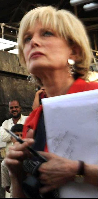 American television news program 60 Minutes reporter Lesley Stahl during visit to the People's Market in the Sadr City district of Baghdad, Iraq, Sept. 18, 2008. U.S. Air Force photo by Tech. Sgt. Cohen A. Young